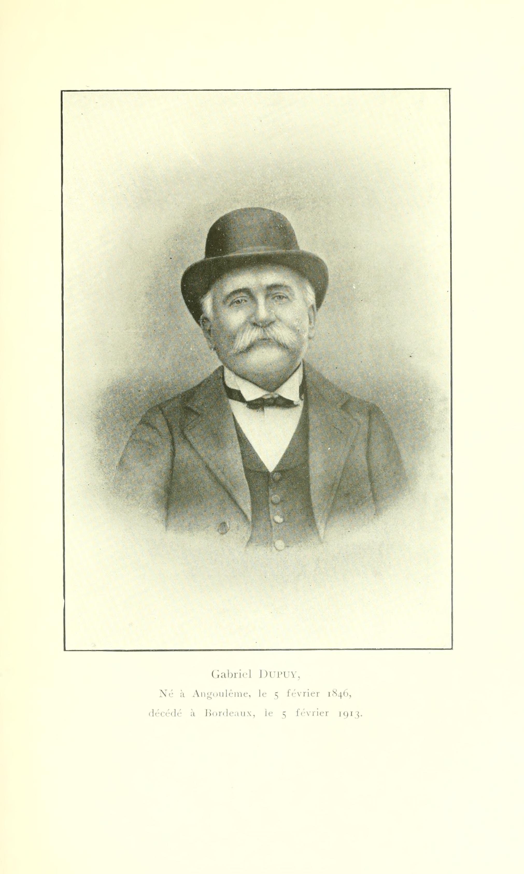 GabrielDupuy